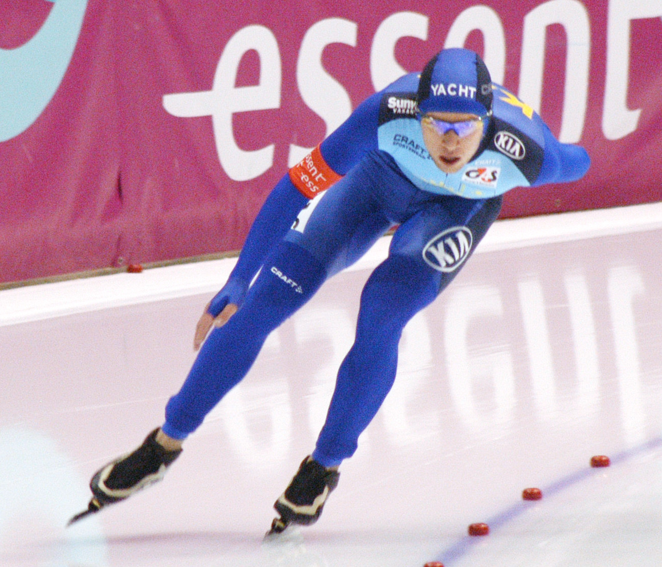 Dmitri Babenko (Дмитрий Бабенко, KAZ) at a World Cup Speed Skating in Heerenveen, the Netherlands.